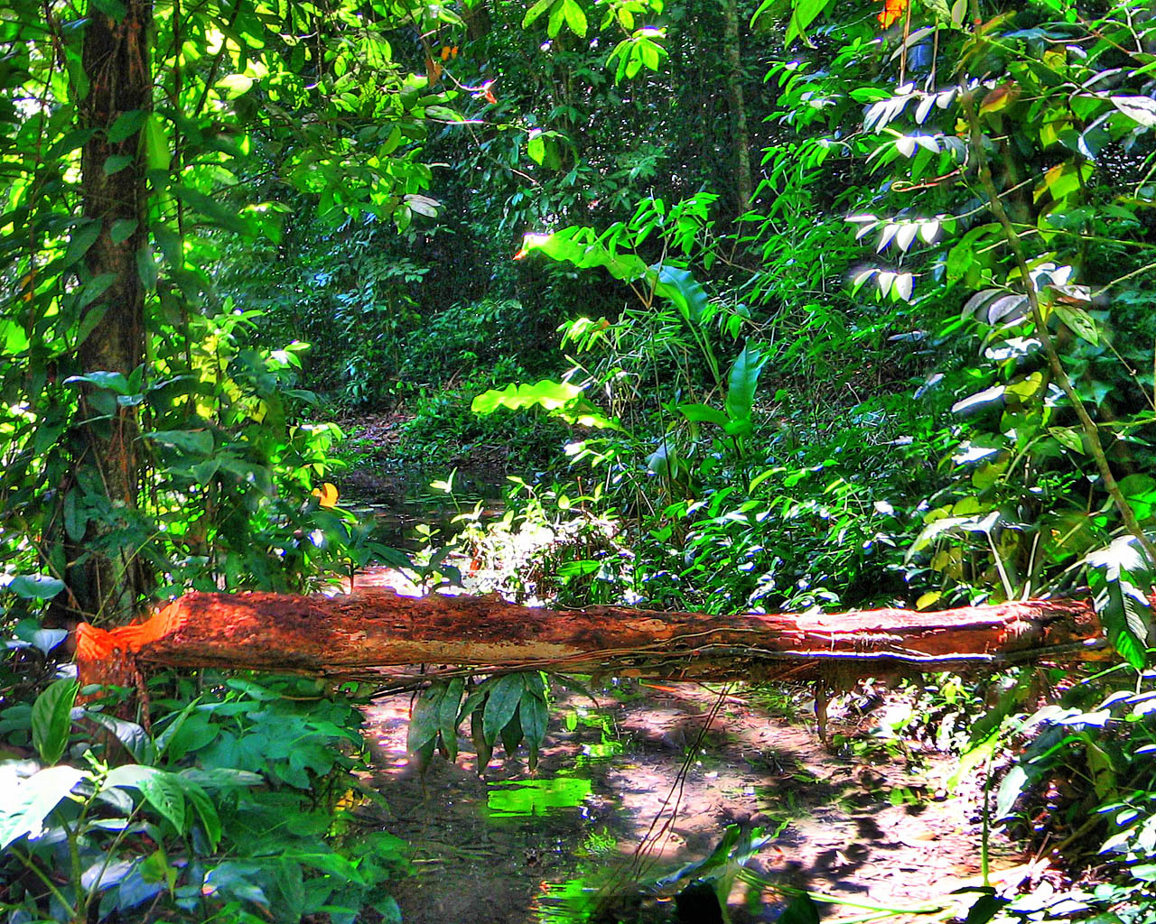 Typical atlantic forest vegetation in Camaragibe, Pernambuco.